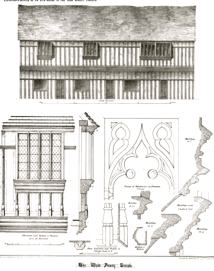 Whitefriars, High Street, Lincoln. Formerly known as: Whitefriars or Akrill's Court, 333 HIGH STREET, House, now a shop. C15, restored and refronted late C20. Close studded timber frame with rendered nogging and plain tile roof. C20 brick front. Coved first floor jetty and eaves. 2 storeys, 4 bays.